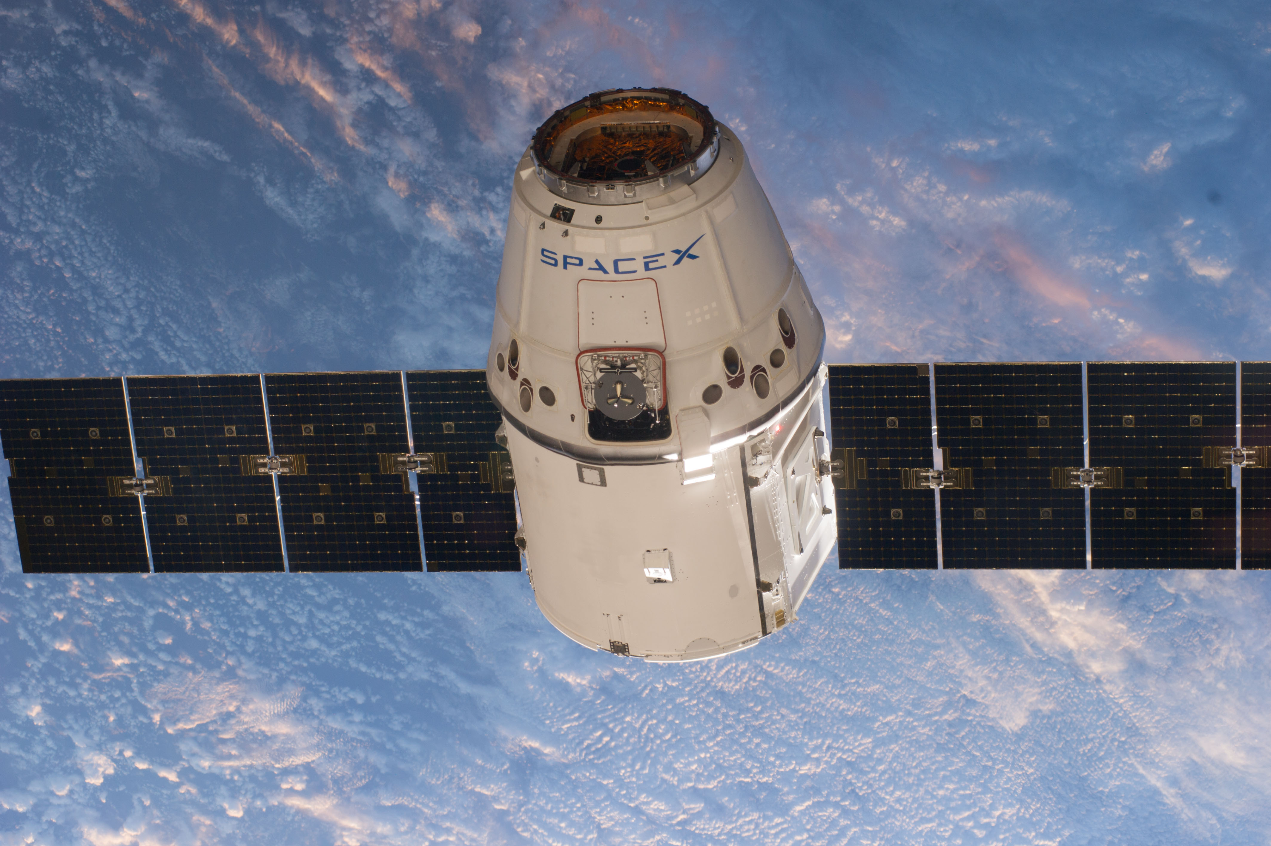 ISS039-E-013481 (20 April 2014) --- This is one of an extensive series of still photos documenting the arrival and ultimate capture and berthing of the SpaceX CRS-3 Dragon at the International Space Station, as photographed by the Expedition 39 crew members onboard the orbital outpost. The spacecraft was captured by the space station and successfully berthed, following the April 20 arrival.